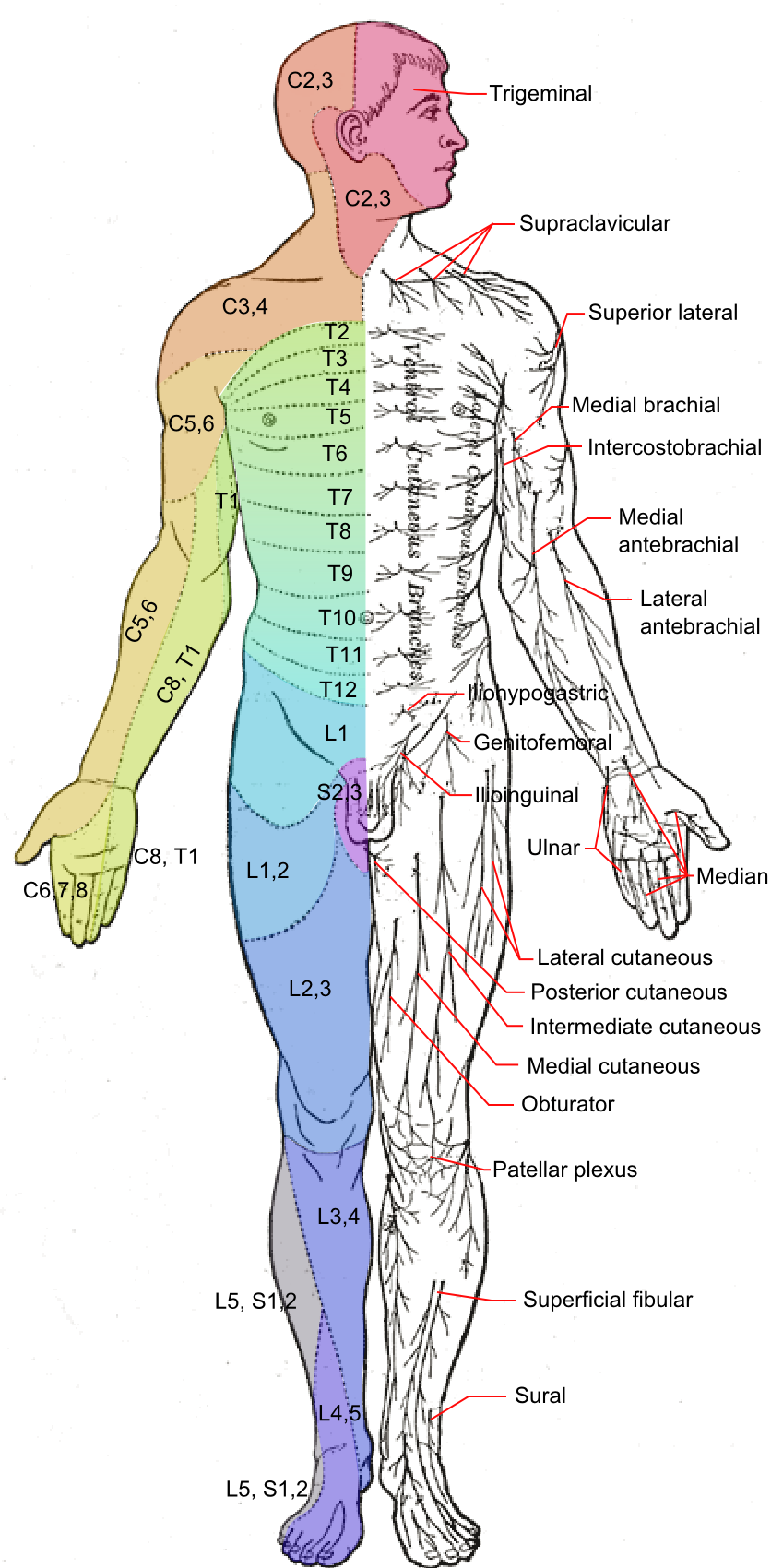 Dermatomes and major cutaneous nerves in a ventral view.